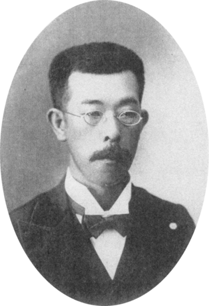 Mr. Teizō Tamana.